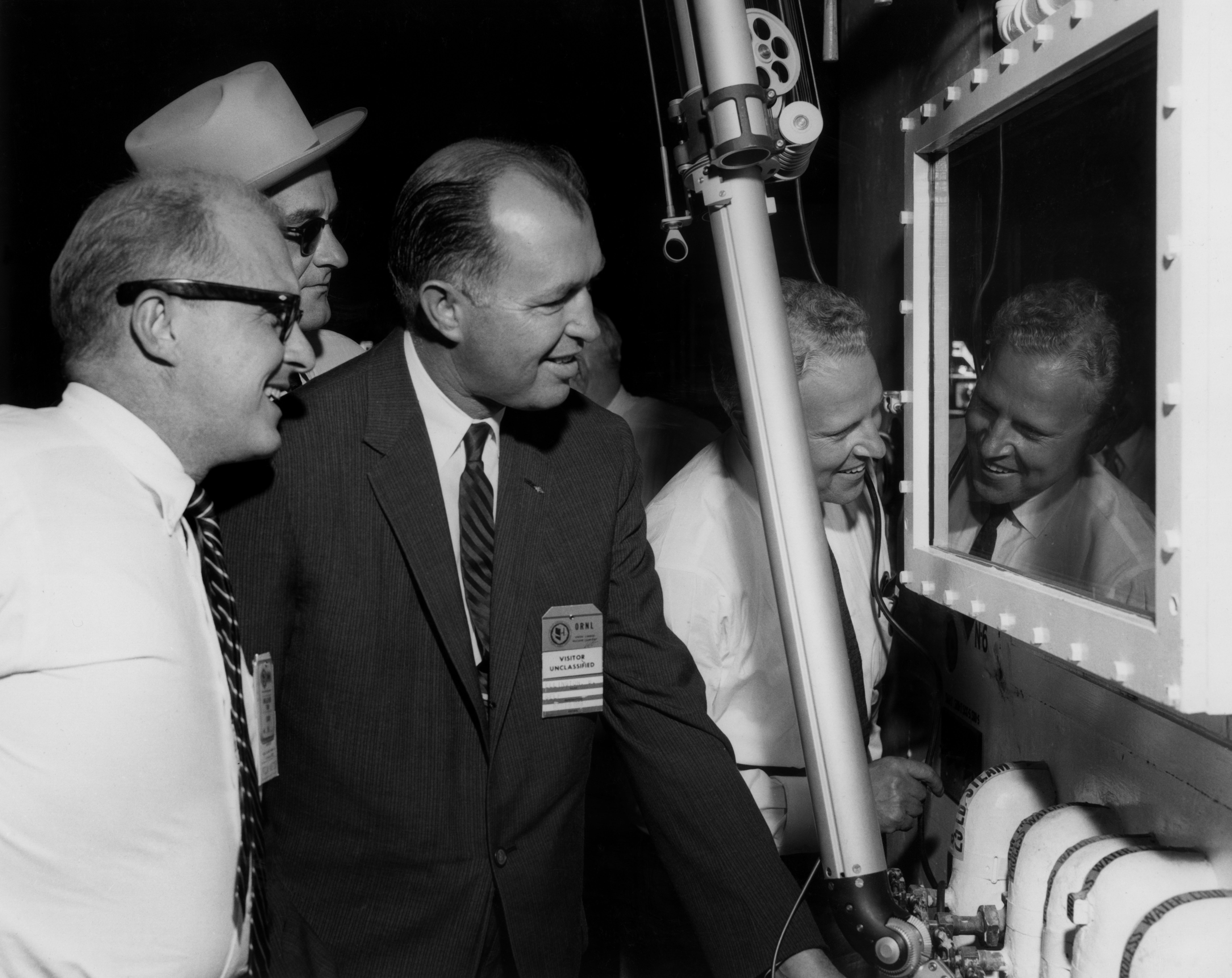 Tennessee gubernatorial candidate Buford Ellington (center), Senator Lyndon Johnson (background, left of Ellington), Senator Albert Gore, Sr. (right), and Cayce Pentecost, at the Oak Ridge National Laboratory in 1958.